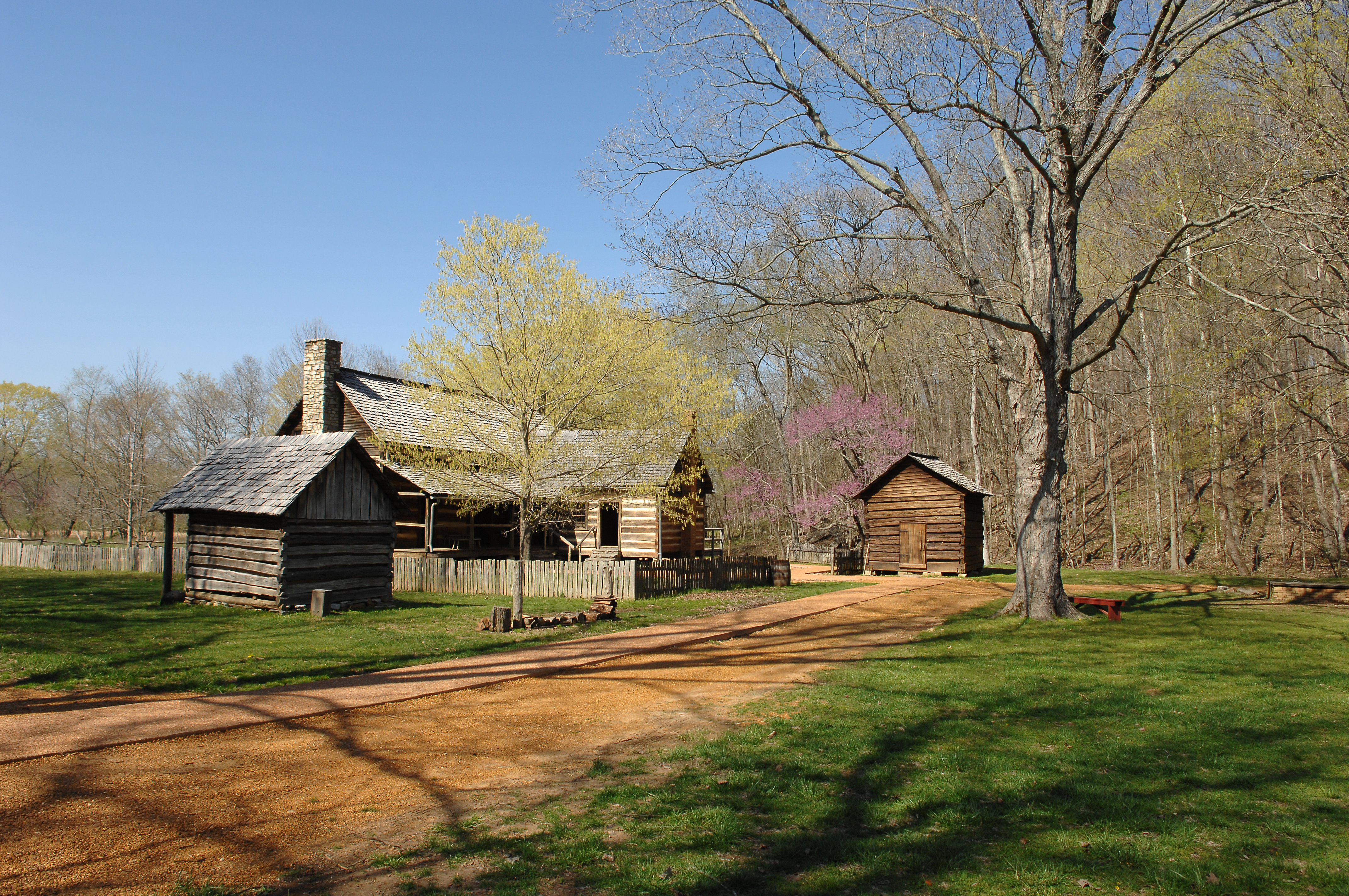 A portion of the sixteen log structures that make up "The Homeplace", a recreation of an 1850-style farm, at the Land between the Lakes National Recreation Area.